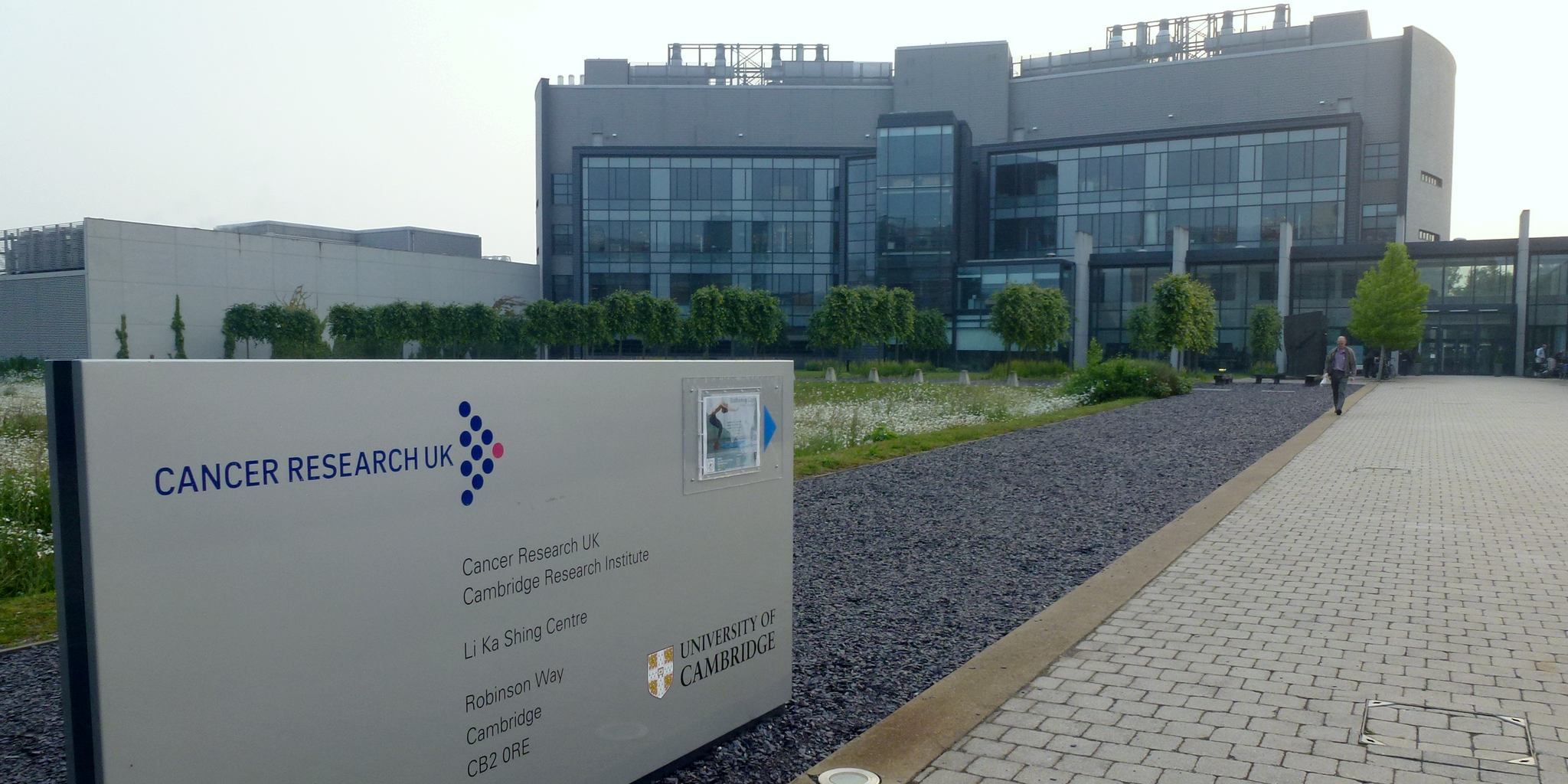 Li Ka Shing Centre of the Cancer Research UK Cambridge Institute in June 2013.